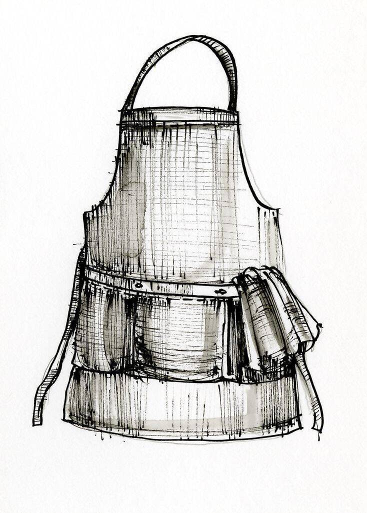 The description of the concept in this drawing is: Garments worn over main garments for protection and sometimes ornamentation. Usually cover the front of the body and tie at the waist with strings, but may have a bib or shoulder straps. (AAT)